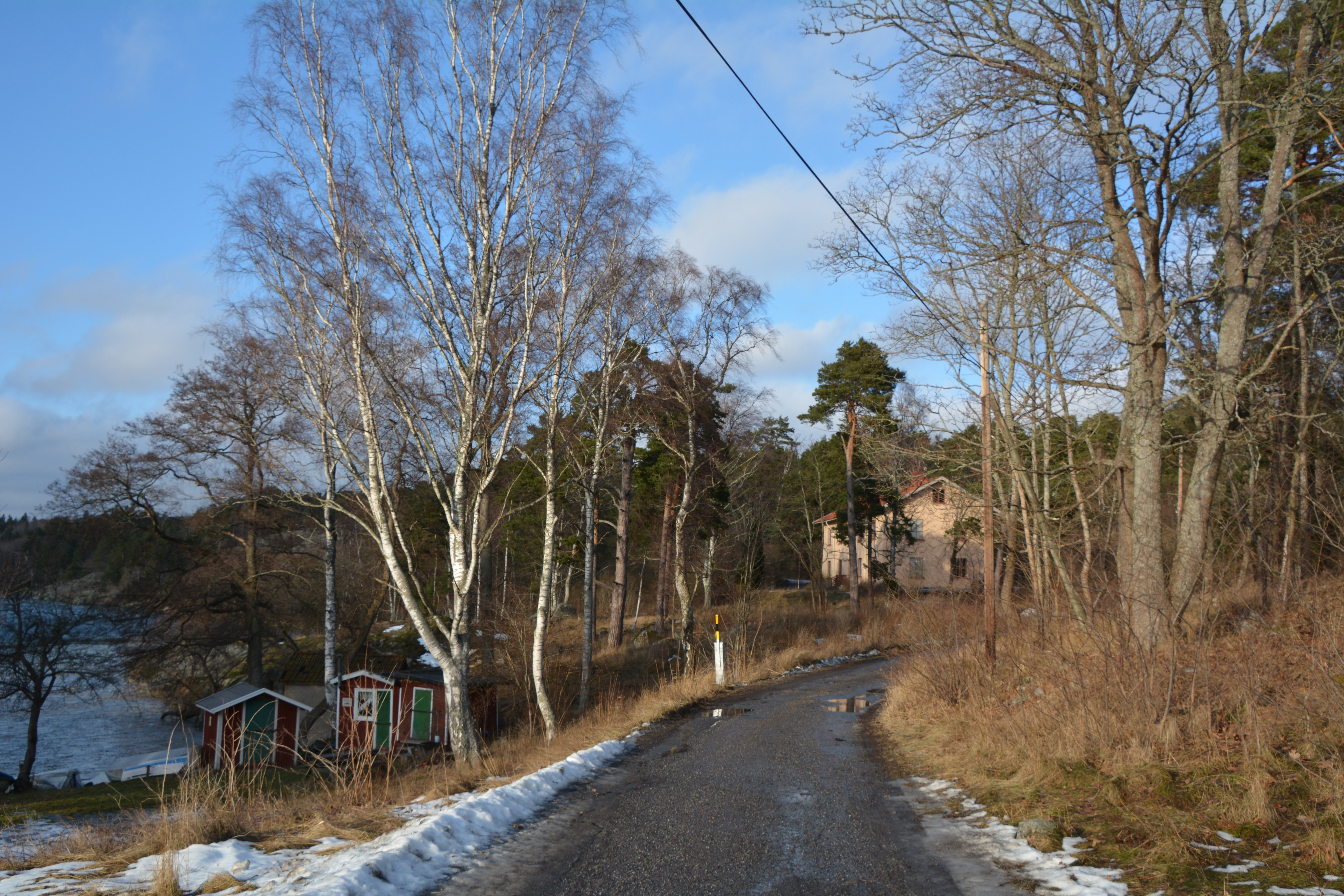 Kyrkhamn